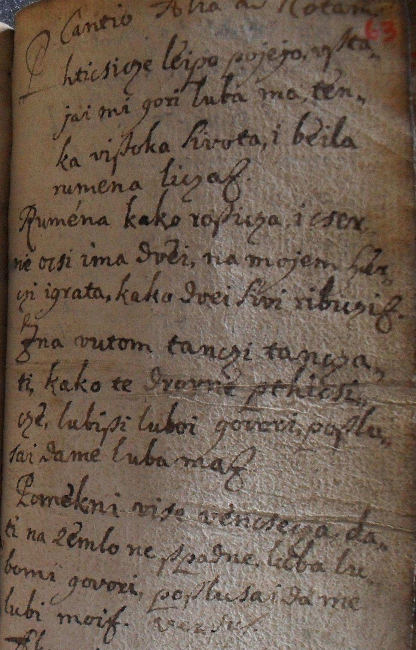 Phticsicze leipo pojejo (The birds sing beautifully) in the Old Hymnal of Martjanci in prekmurian language. This is love poem in the church hymnal, as such, it is not included in any other Prekmurian hymnal.